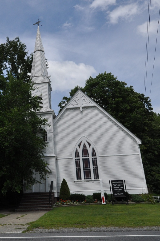 Congregational Church, Bridgewater, Vermont.